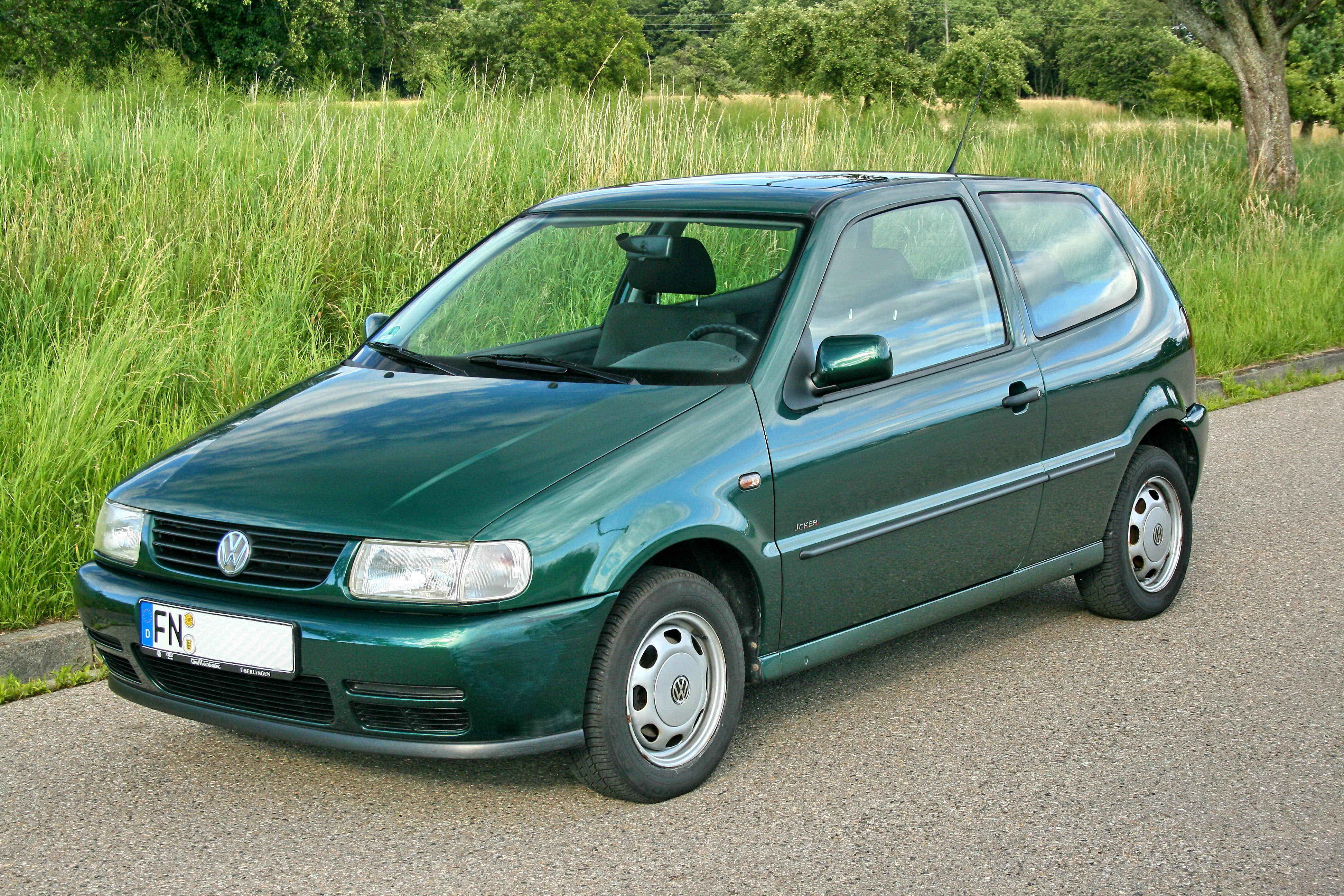 A Polo 6N